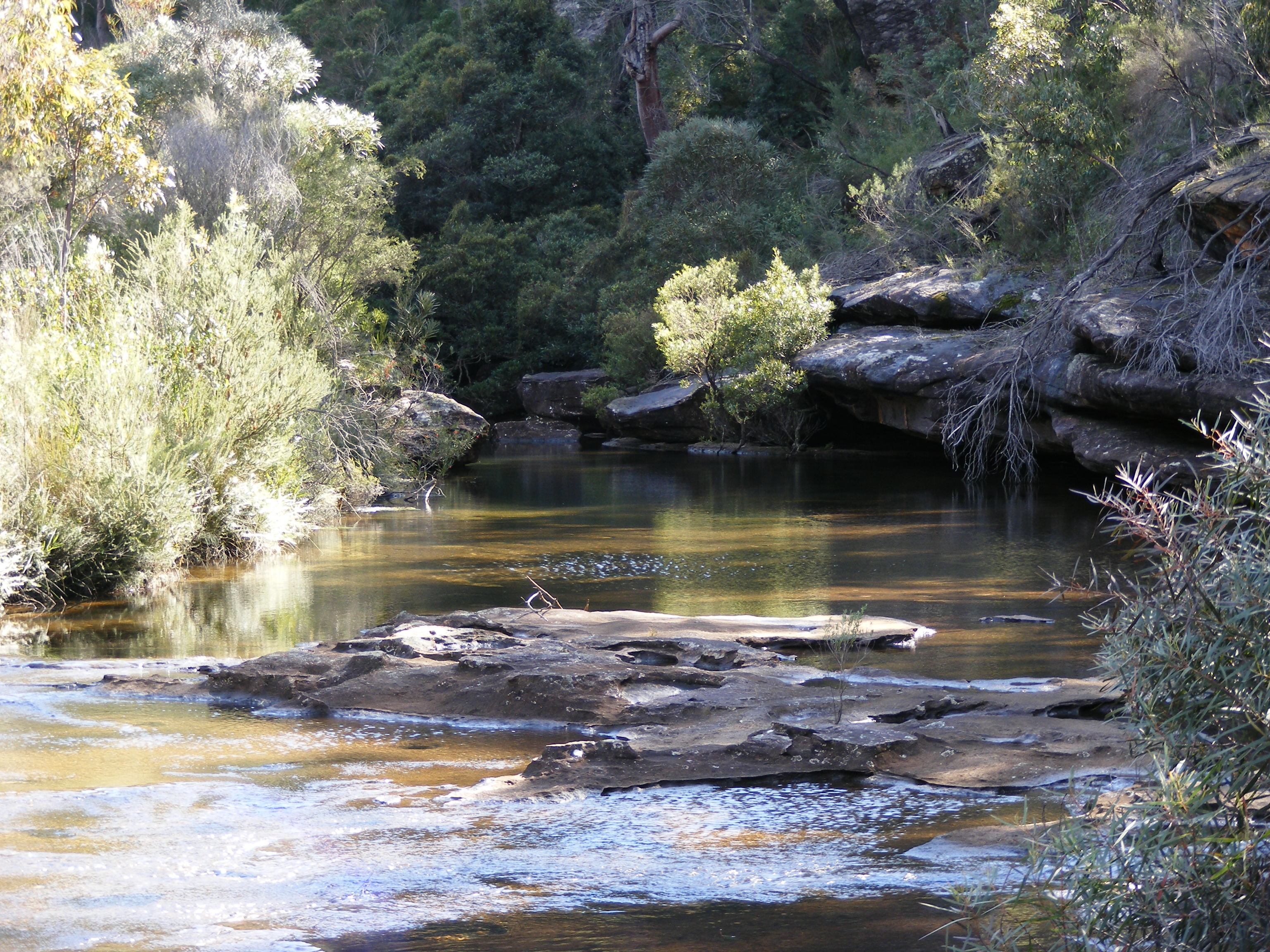 Heathcote National Park